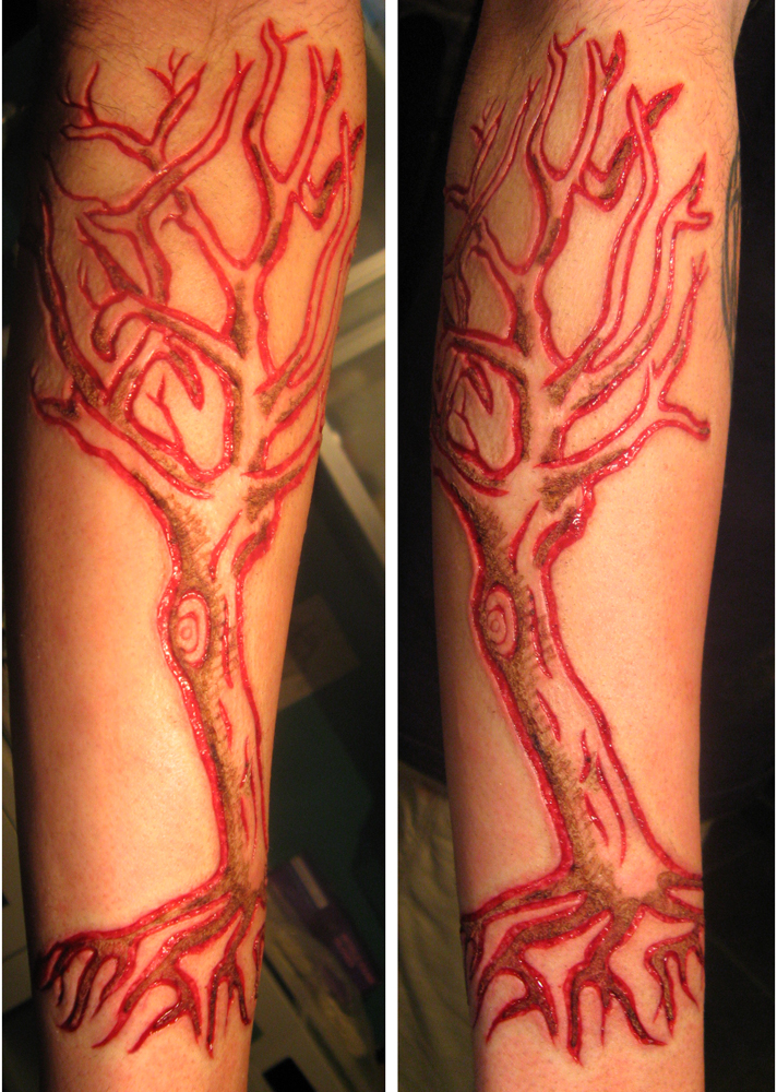 Scarification piece done using a scalpel and an electric cauterizer. Original artwork and scar done by Brian Decker from Pure Body Arts in Brooklyn, New York.